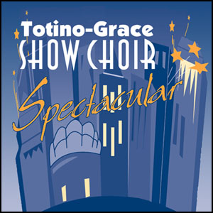 This is an example of a program for a show choir competition from Totino-Grace's Spectacular